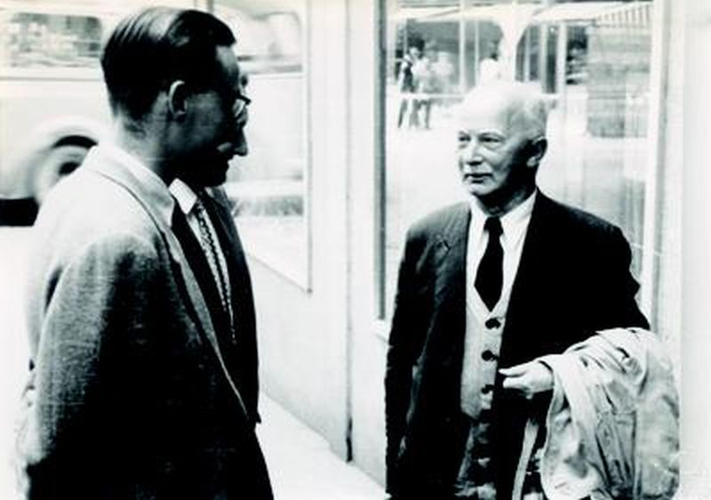 Otto Grün (right) in conversation with Bertram Huppert (left), Helmut Wielandt